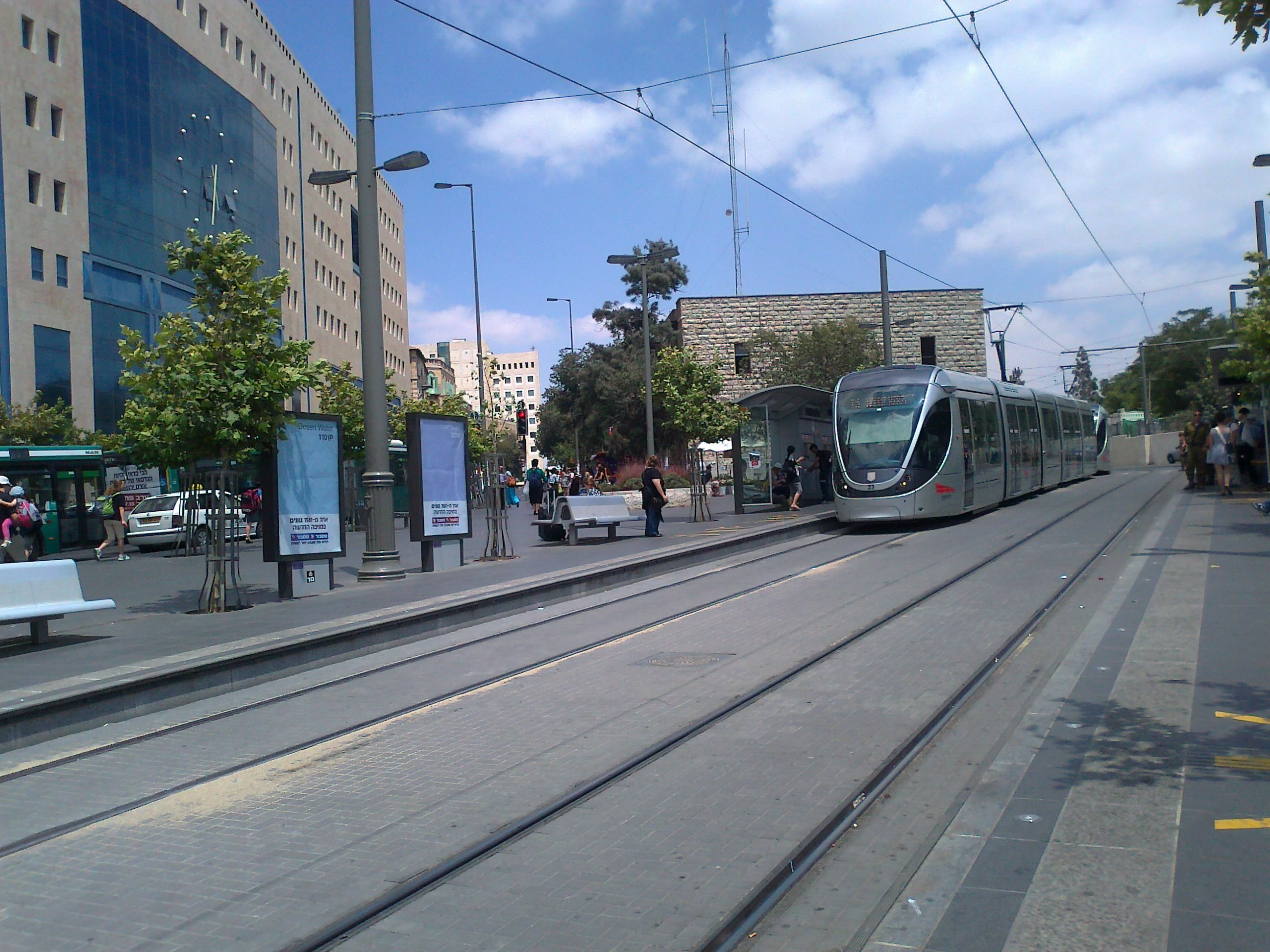 Jerusalem Light Rail near the Central Station.